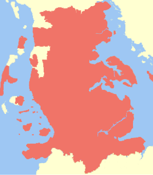 This is a map of the Duchy of Slesvig, it was created after many of the Angles migrated to Great Britain and the Danish tribes moved down into the area which the Angles previously inhabited. The Duchy lasted for centuries.